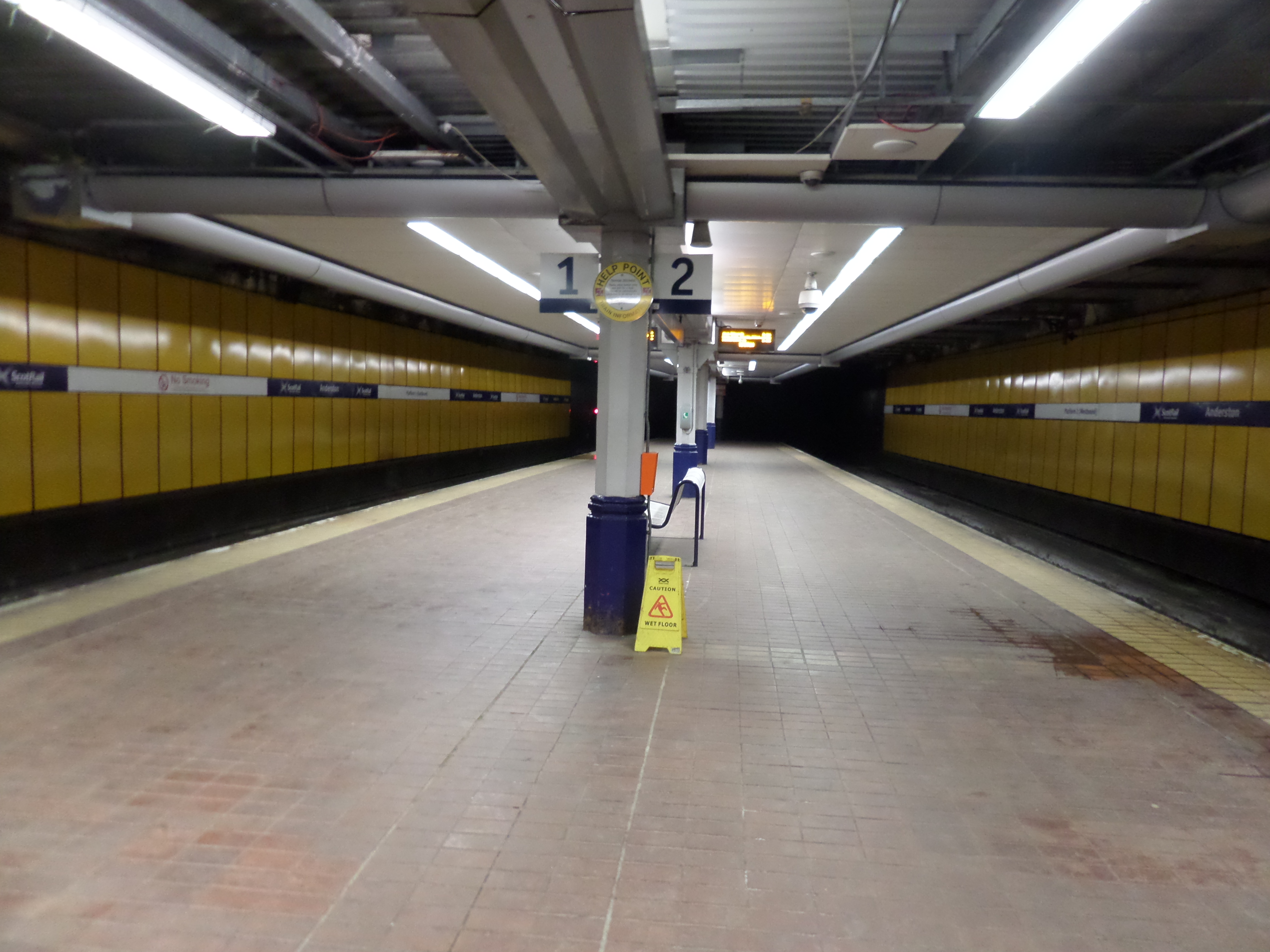 Anderston station on the Argyle Line, Glasgow - platform level.